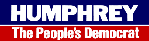 Herbert H. Humprey